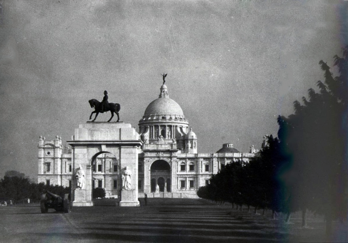 Undated photograph of Victorial Memorial, Calcutta.